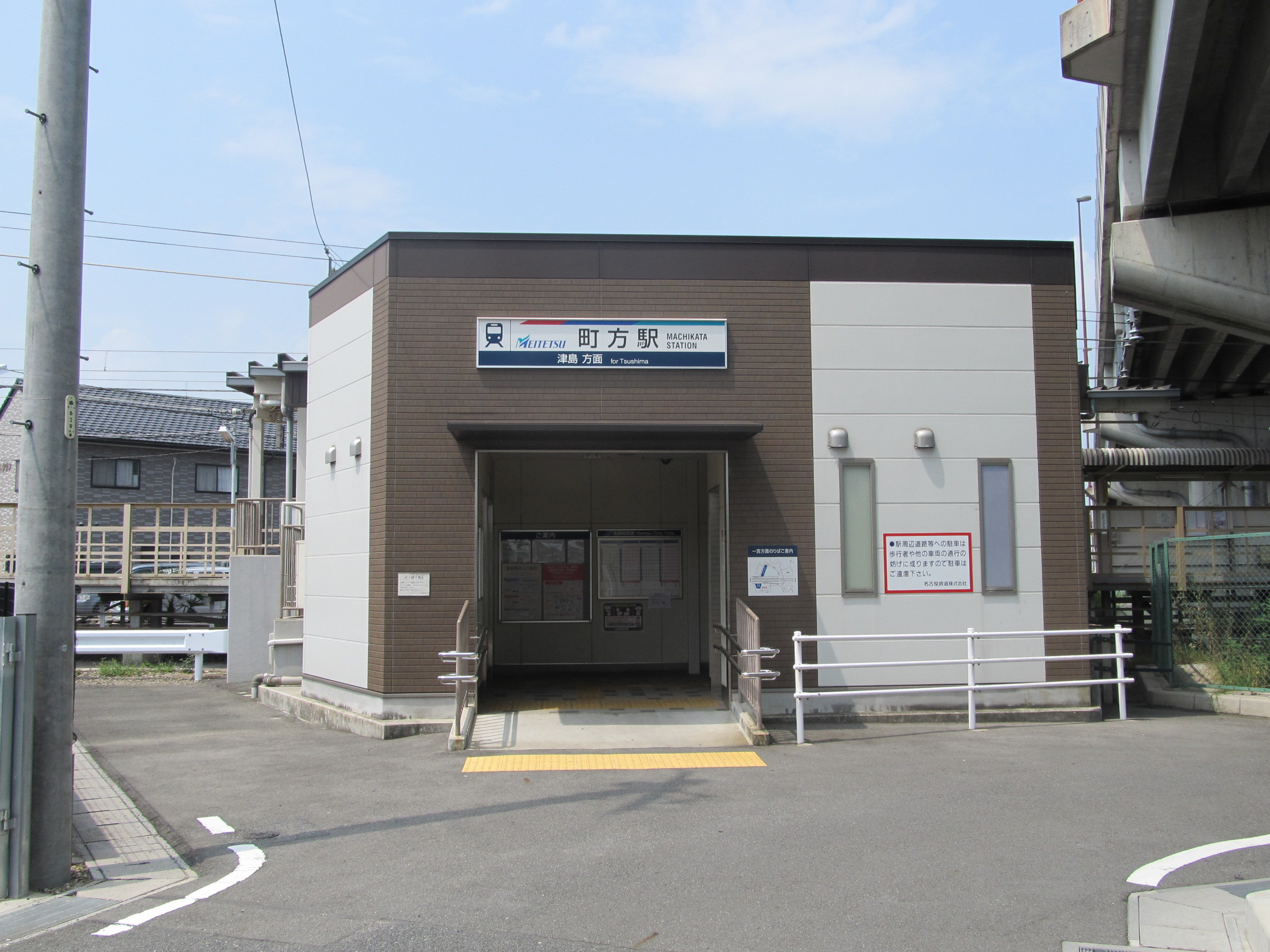 Nagoya Railroad Bisai Line Machikata Station Building (for Tsushima).